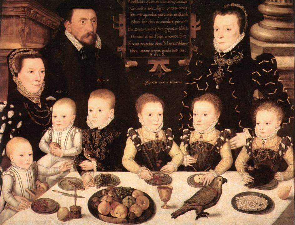 William Brooke, Baron Cobham, and his family at the dining table, 1567